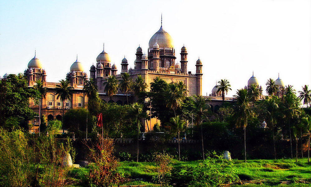 Hyderabad High Court